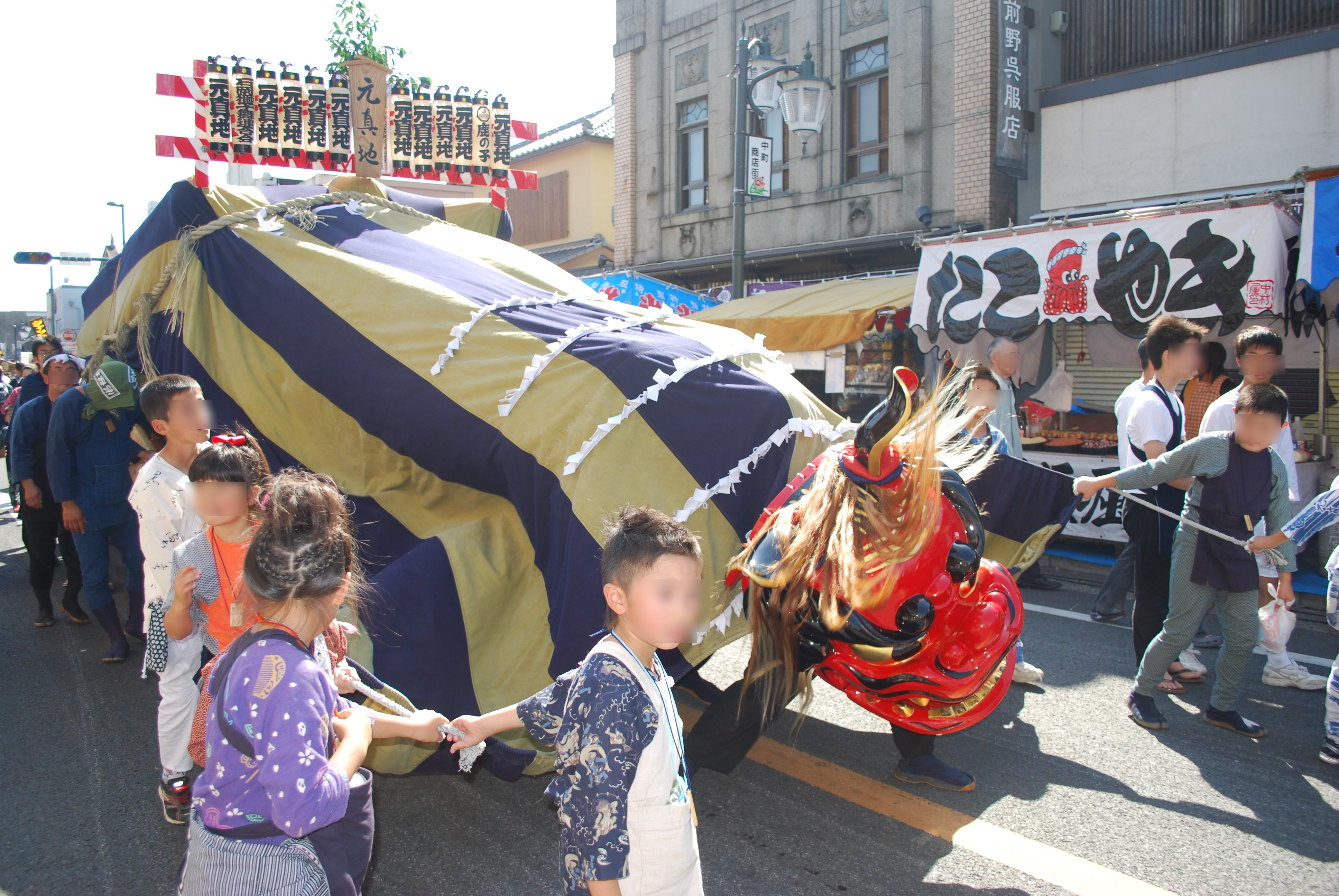 Lion float from Motoshinji-cho neighbourhood in Ishioka City, Ibaraki Prefecture, Japan, at the Hitachinokuni Soshagu Reitaisai festival